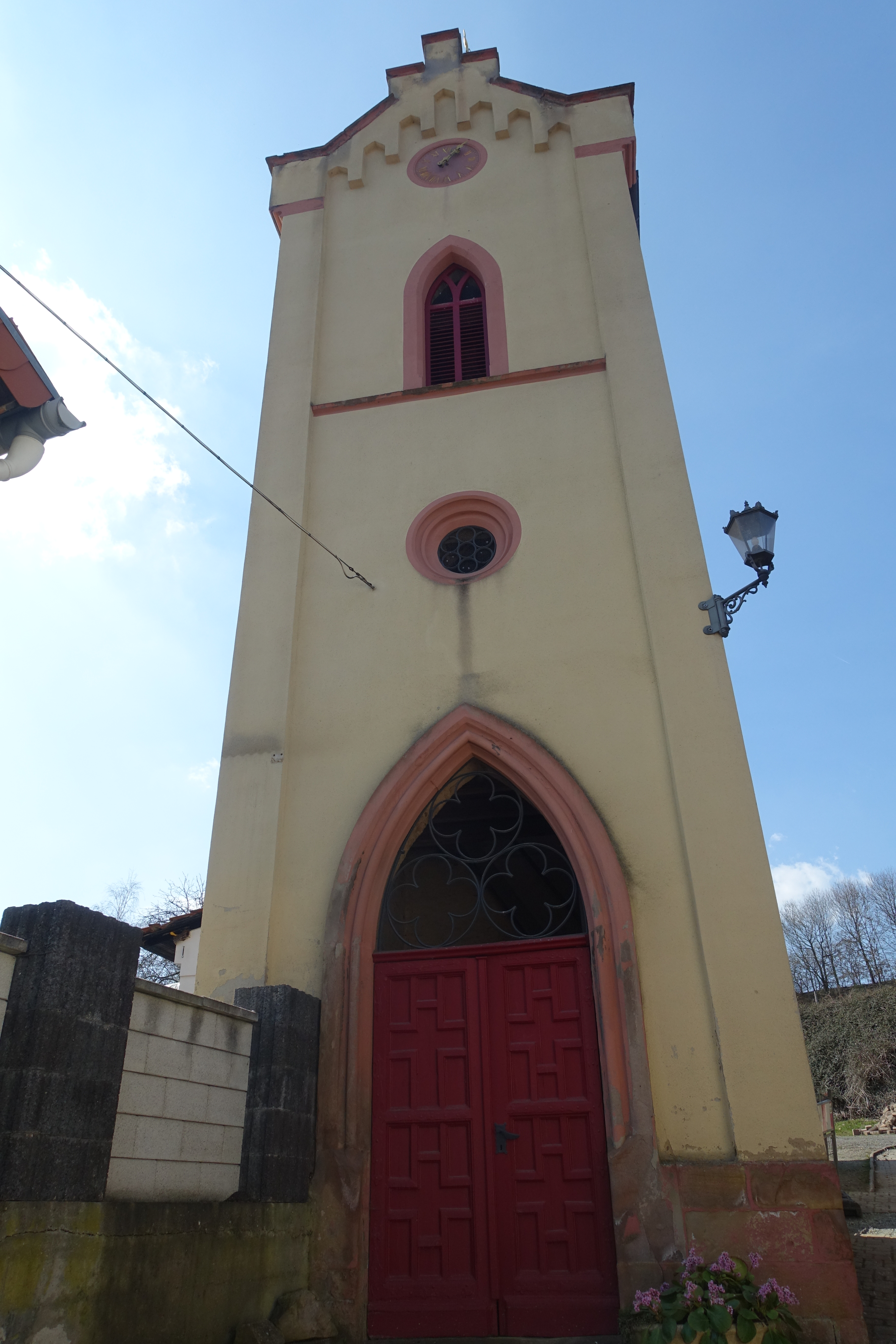 Glockenturm in Würzweiler, Pfalz